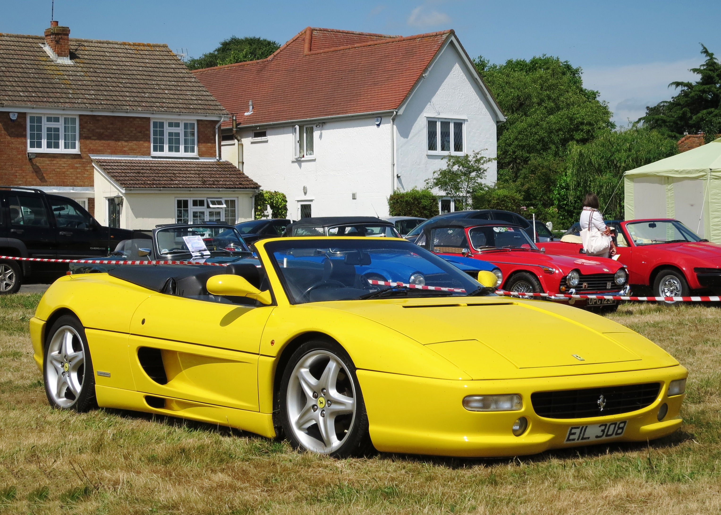 Ferrari F355 Spider (1996)